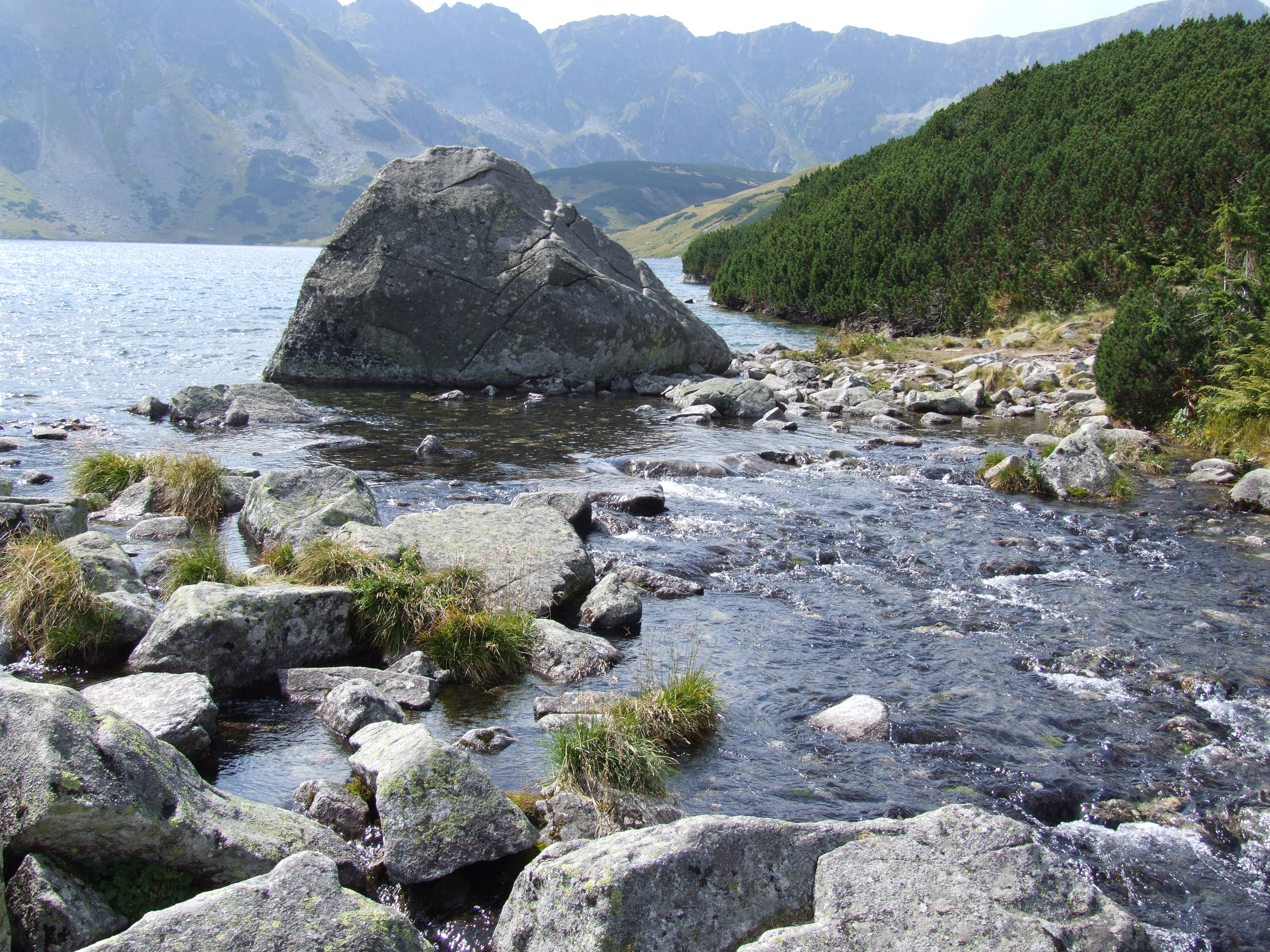 Wielki Staw Polski (Great Polish Tarn) in the Five Polish Tarns Valley (High Tatras, Poland); huge boulder being a relic of a terminal moraine